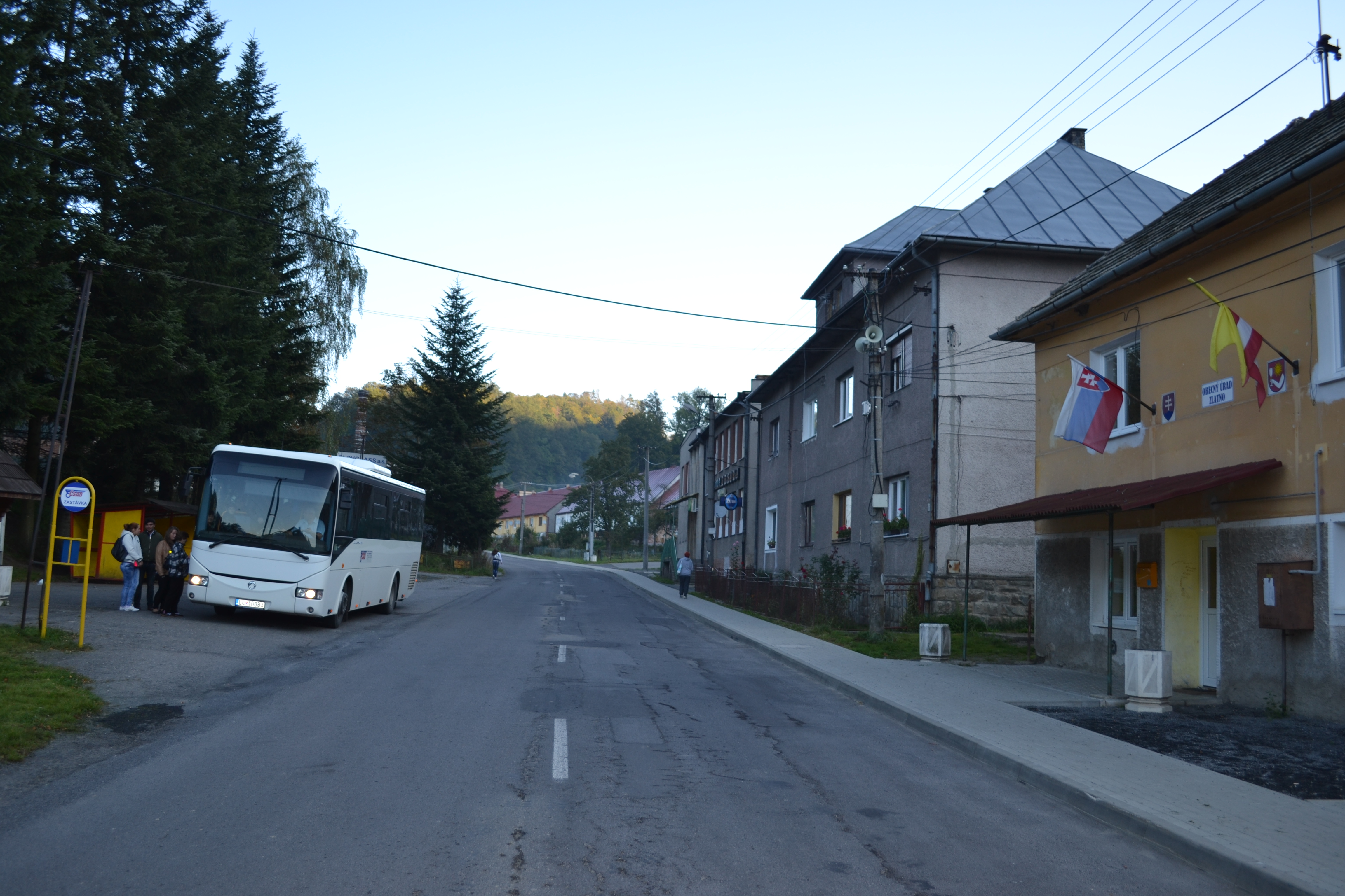 Street of the village Zlatno (Poltár District)